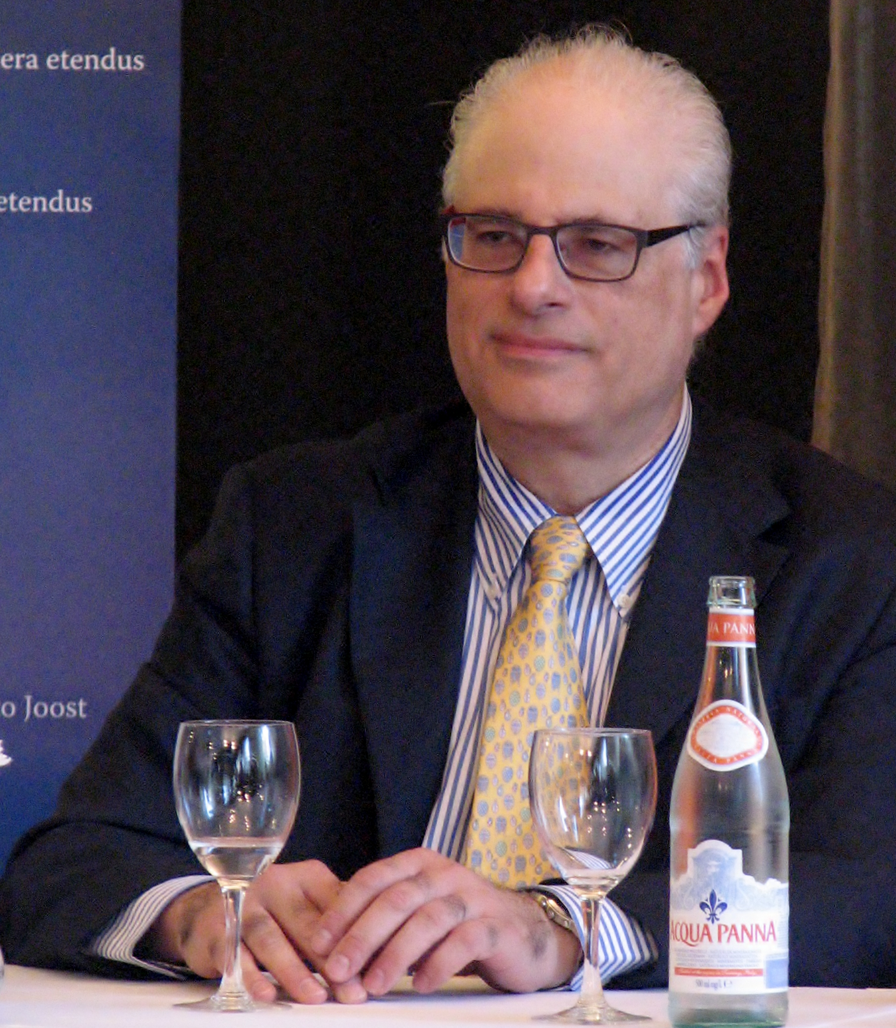 Jay Reise during Saaremaa Opera Days, 2012